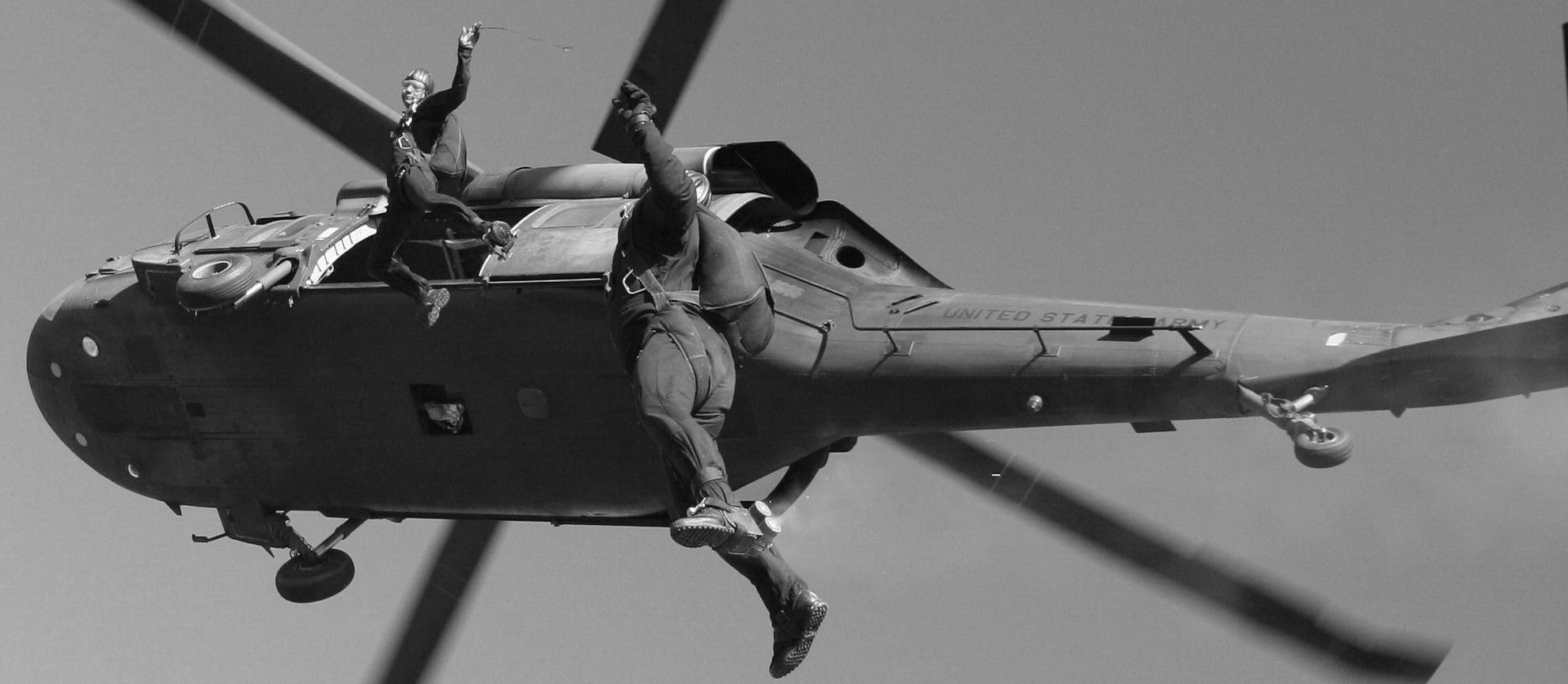 Jumping from a UH-60